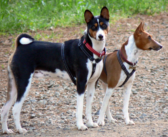 Two Basenjis.